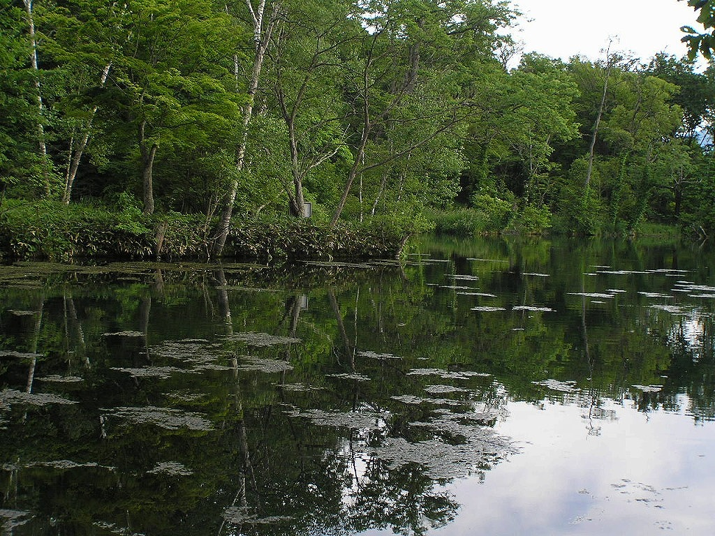 torinuma-park 6300098 鳥沼公園